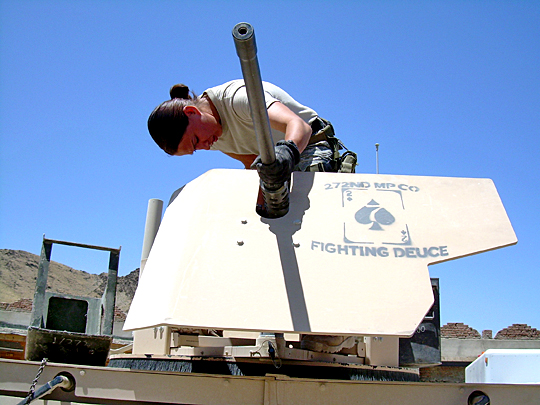 U.S. Army Spc. Rachel Carey, a military police officer deployed to Towr Kham Fire Base, Afghanistan, prepares her 50-caliber machine gun for a mission near the Pakistan border. Carey, a 21-year-old native of Aurora, Ill., assigned to the 272nd Military Police Company “Fighting Deuce” in Mannheim, Germany, is serving a one-year tour here.